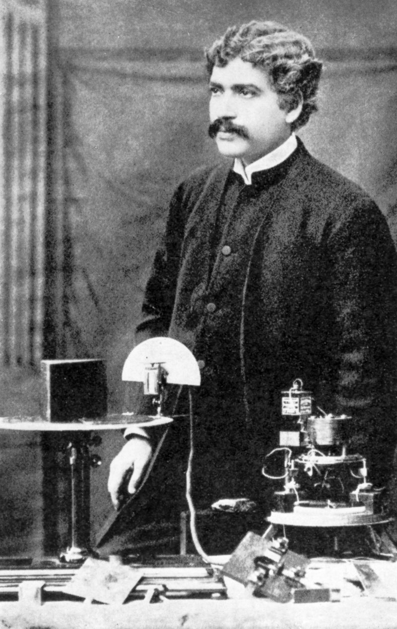 In 1894, Sir Oliver Lodge first demonstrated waveguide microwave transmission lines at London's Royal Institution. Three years later at the University of Calcutta, Indian physicist J.C. Bose (seen here) flared out the end of a waveguide, demonstrating the horn antenna